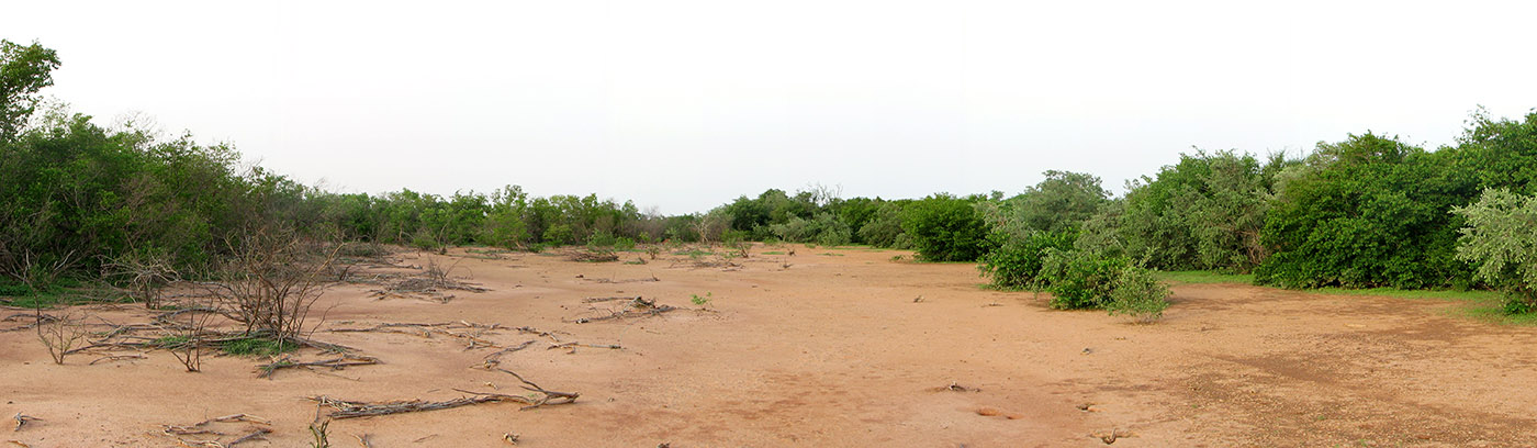 Tiger bush near Batama-Beri, Niger. From left to right: downslope margin of vegetated band, inter-band of bare soil, upslope margin of the next vegetated band. Vegetation is dominated by Combretum micranthum and Guiera senegalensis.